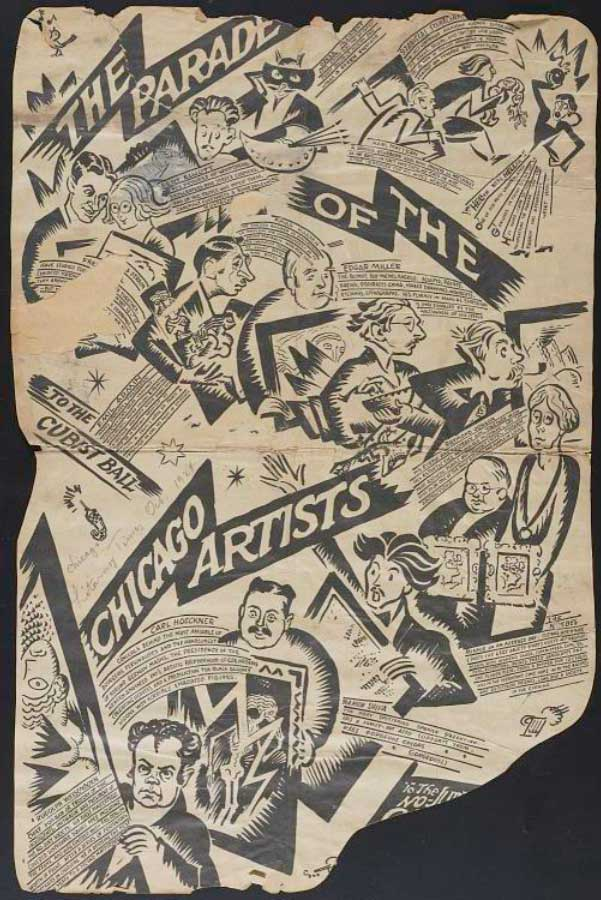 No-Jury Society of Artists advertisement in Chicago Literary Times, Emil Armin cartoon, "The Parade of Chicago Artists to the No-Jury Artists Cubist Ball," October 1923. Emil Armin papers, 1922-1977. Archives of American Art, Smithsonian Institution.